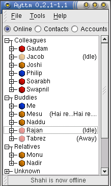 author = Tahir Hashmi source = URL =